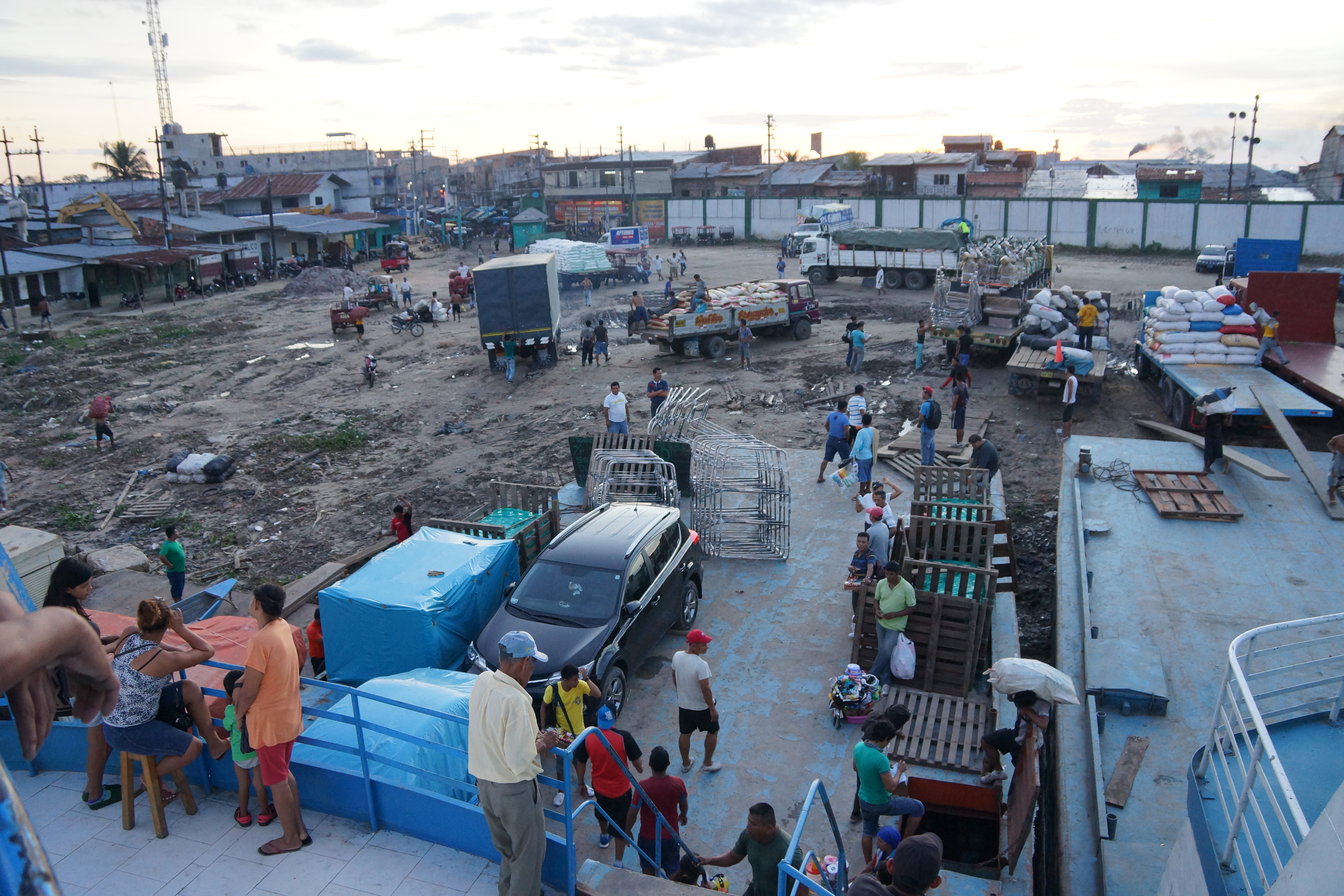 Puerto Masusa, one of the ports of Iquitos. From here boats leave to Yurimaguas.